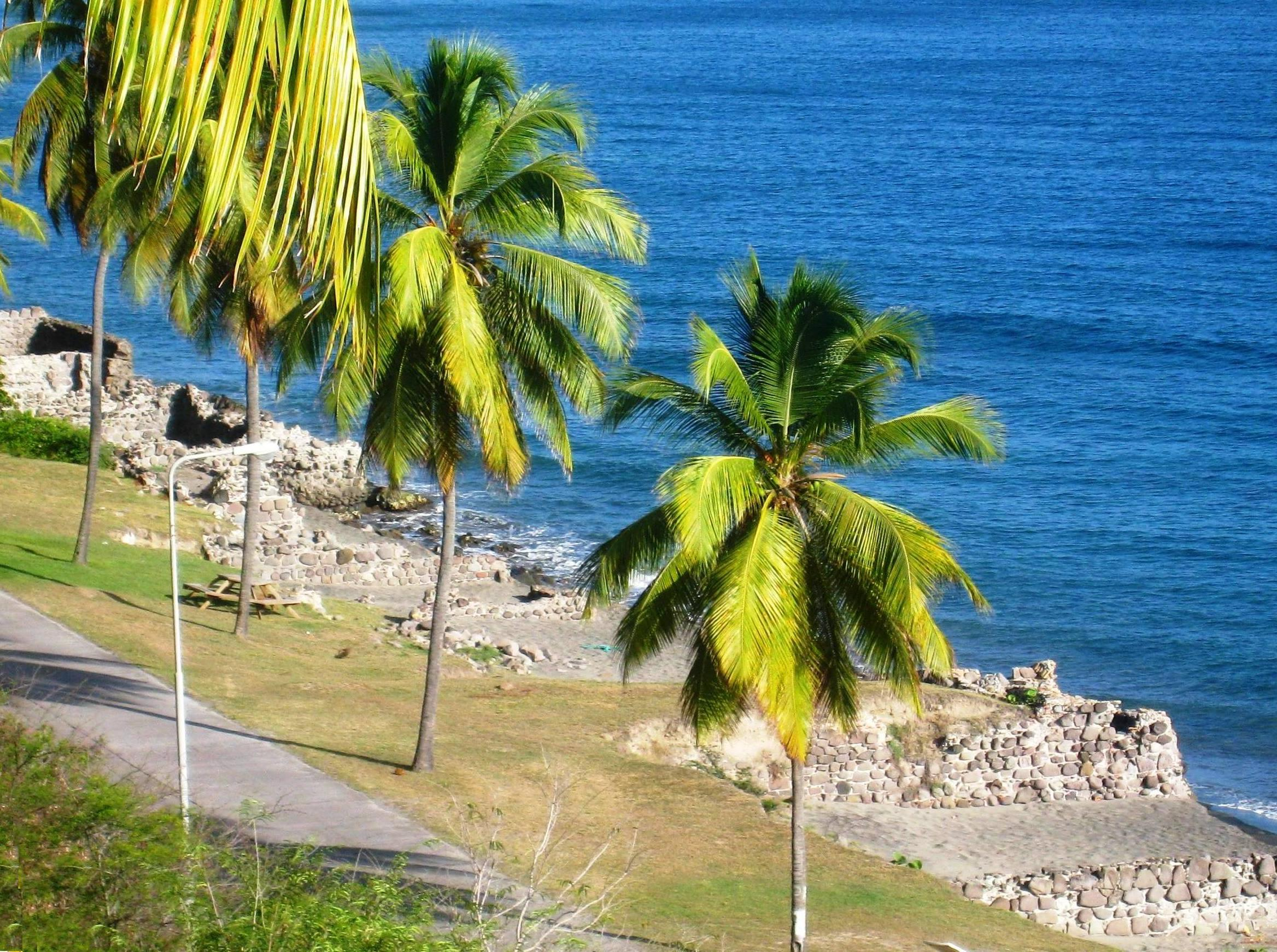 Warehouses along the beach of Lower Town in Sint Eustatius were destroyed by the hurricane